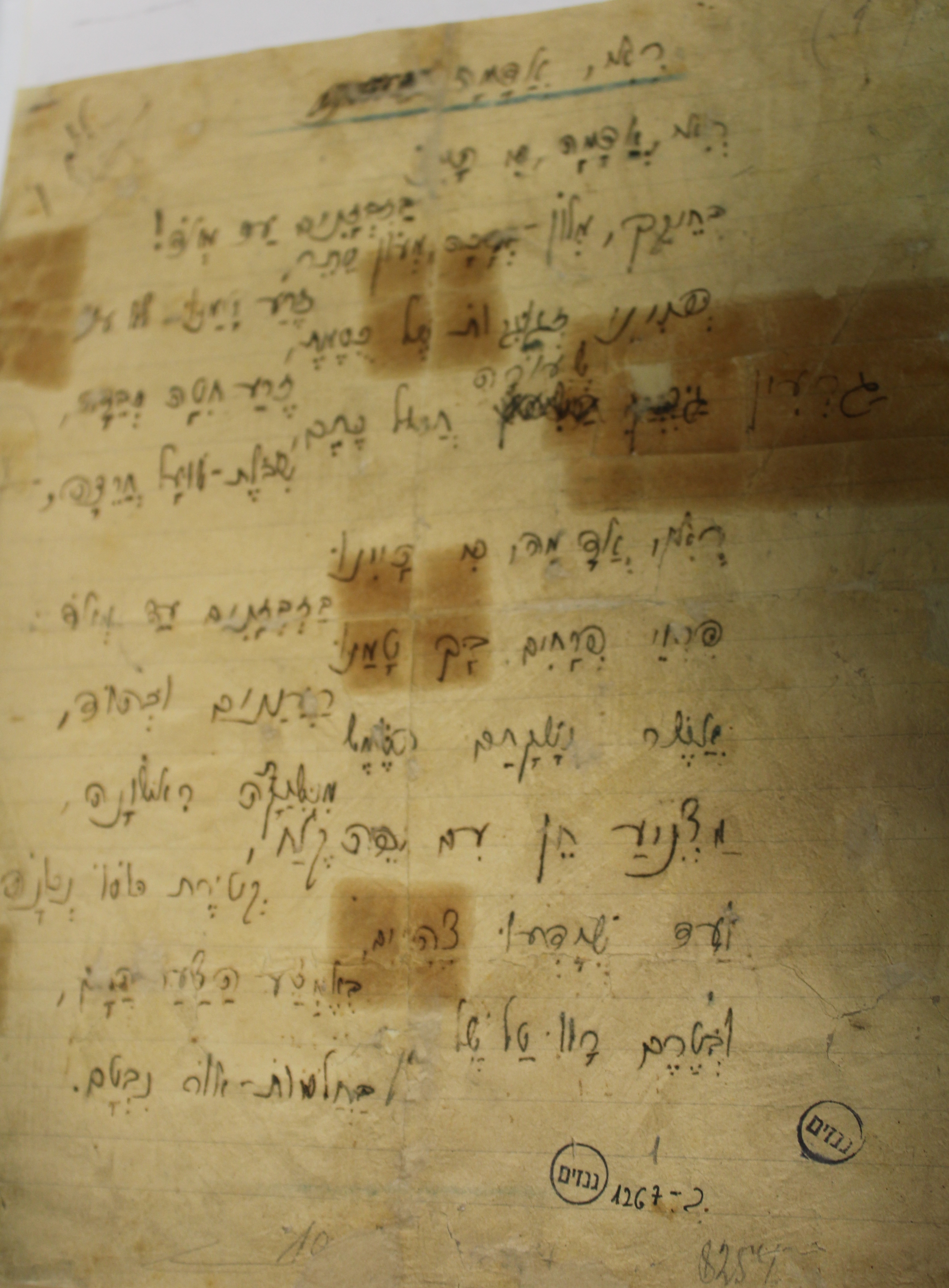 documents at Gnazim Institute archive, Beit Ariela, Tel Aviv, Israel This image was taken as part of the Elef Millim project tour of the Gnazim Archive, in Beit Ariela in Tel Aviv, in Israel which was held on Sunday, 24th March 2019. To view all images uploaded as part of the Elef Millim Project This file of Poems by the poet Shaul Tchernichovsky was donated to Wikimedia Commons by the Gnazim Archiveas part of a collaboration project with Wikimedia Israel. To view all images donated as part of the collaboration project Shaul Tchernichovsky (1875–1943) Alternative names שאול טשרניחובסקיDescriptionRussian-Soviet poet, translator, physician, writer and Iliad's translatorIsraeli poetDate of birth/death 20 August 1875 14 October 1943 Location of birth/death Mykhailivka JerusalemWork period1888 –Authority control : Q521410 VIAF: 12420180 ISNI: 0000 0001 0870 7551 LCCN: n82071938 NLA: 35791987 MusicBrainz: 012b1f47-e09a-4824-b991-060eccd52cc0 WorldCat creator QS:P170,Q521410